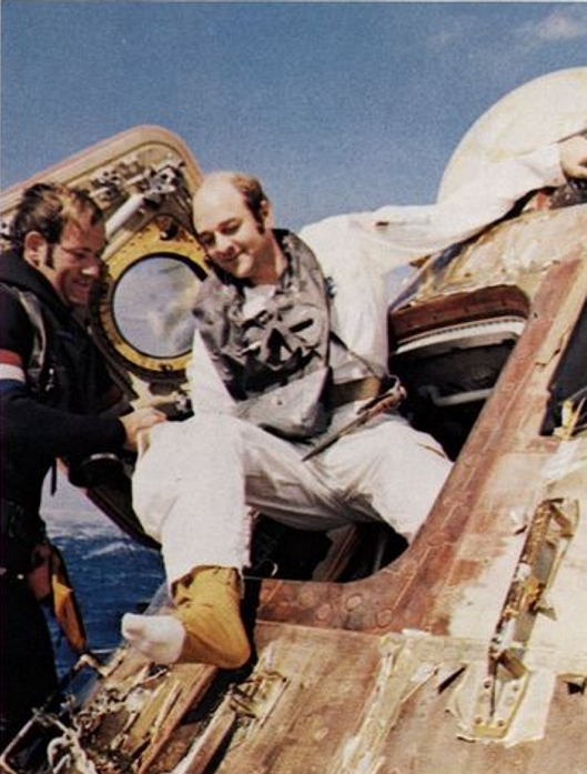 A member of the U.S. Navy Underwater Demolition Team 11 (UDT-11) helps astronaut Ronald E. Evans to exit the Apollo 17 command module (CSM-114) in the Pacific Ocean on 19 December 1972.